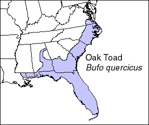 Habitat range of Bufo quercicus (Oak toad).